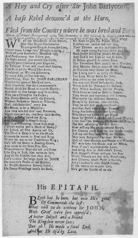 Broadside ballad entitled 'A Huy and Cry After Sir John Barlycorn' by Alexander Pennecuik